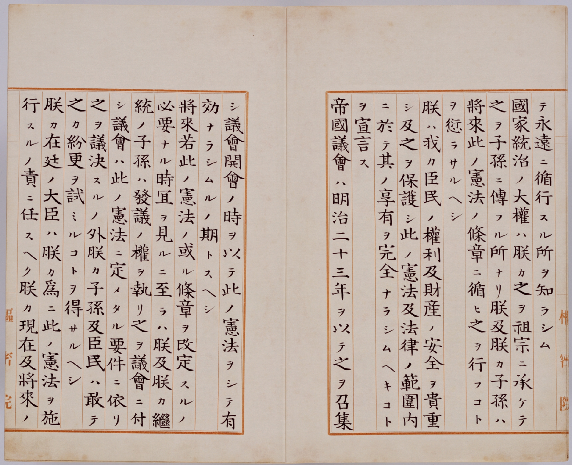 Meiji Constitution (page 2)